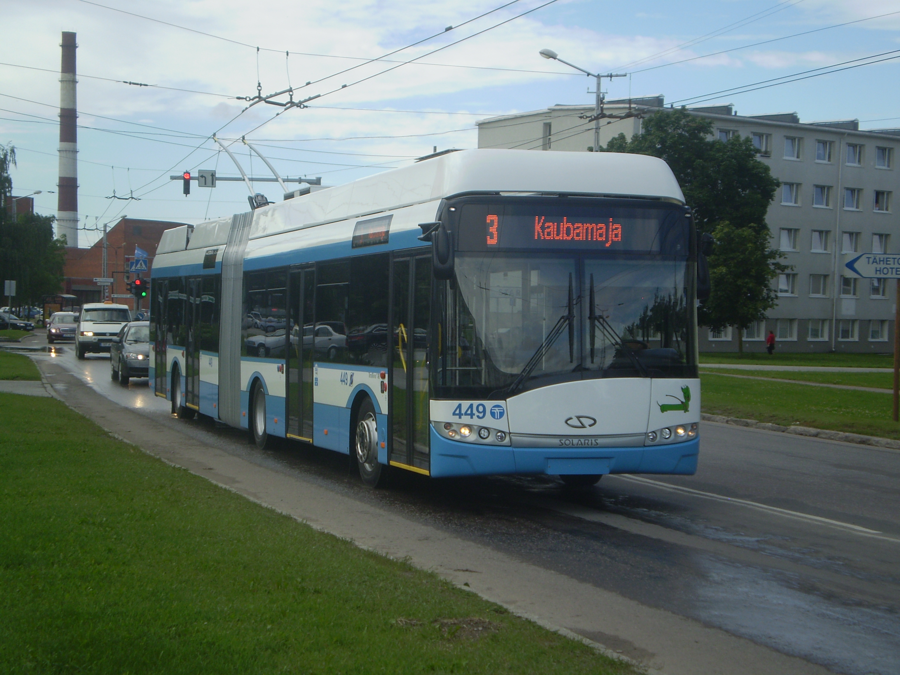 Trolleybus Solaris Trollino 18AC in Tallinn.